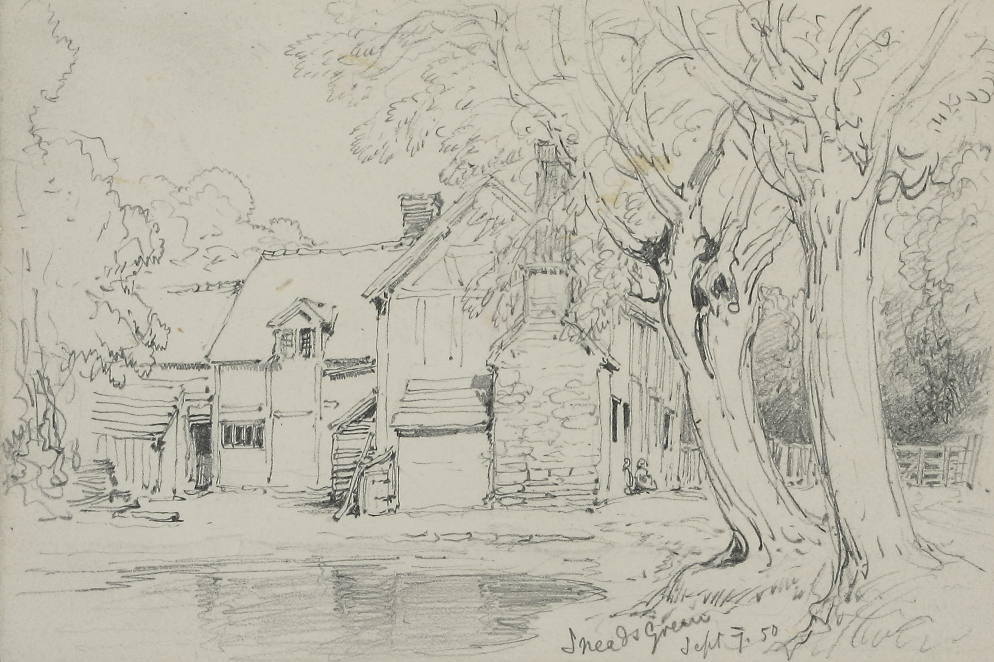 From the Lines family sketchbook, in the collection of the Royal Birmingham Society of Artists, Birmingham, England. See Rediscovering the Lines Family - Exhibition catalogue - 2009 Andy Mabbett, User:Pigsonthewing, is in the process of identifying and categorising these images (assistance welcome). This paragraph will be removed once that's done for this image.